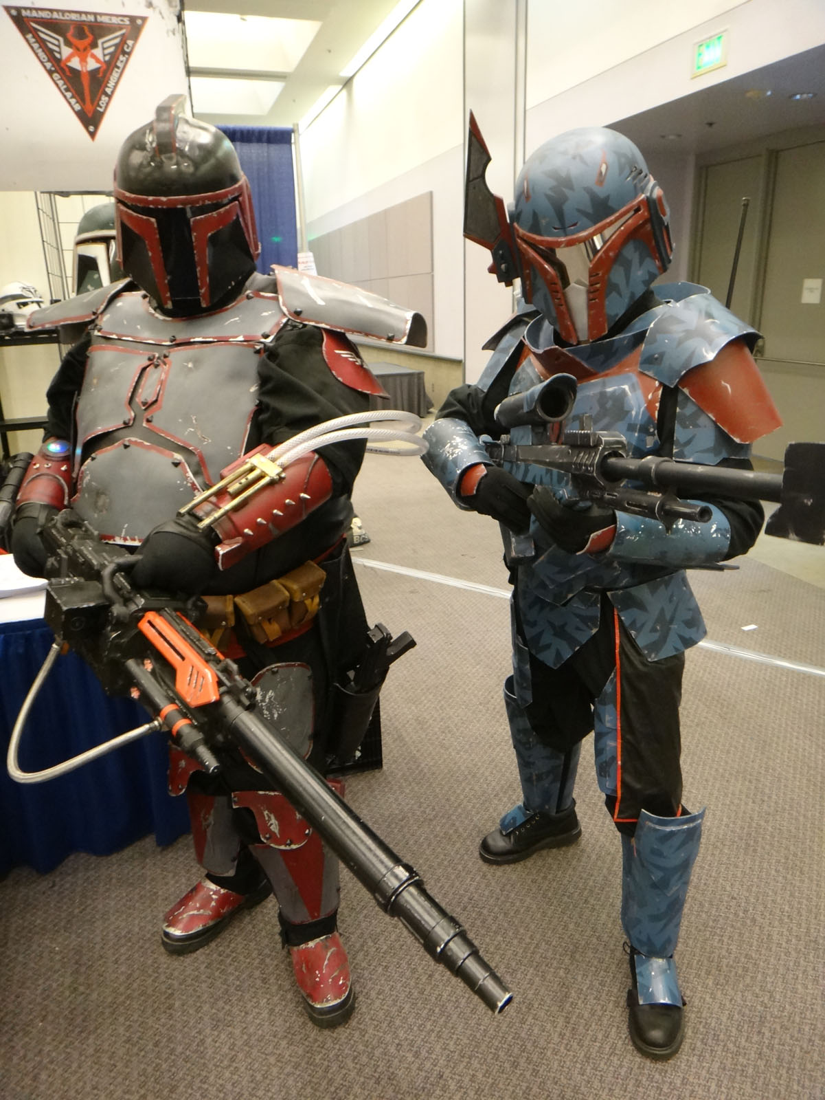 PopCon 2012 - Mandalorian Mercs